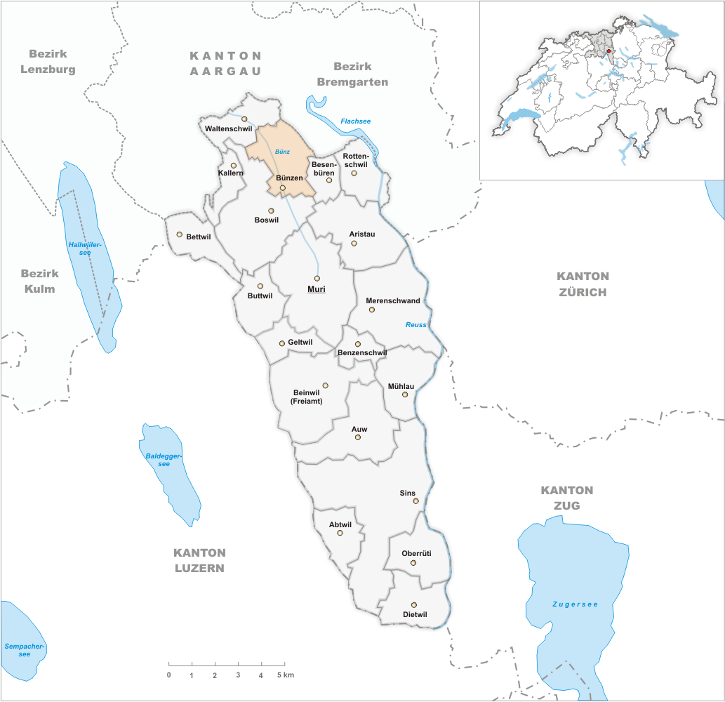 Municipality Bünzen